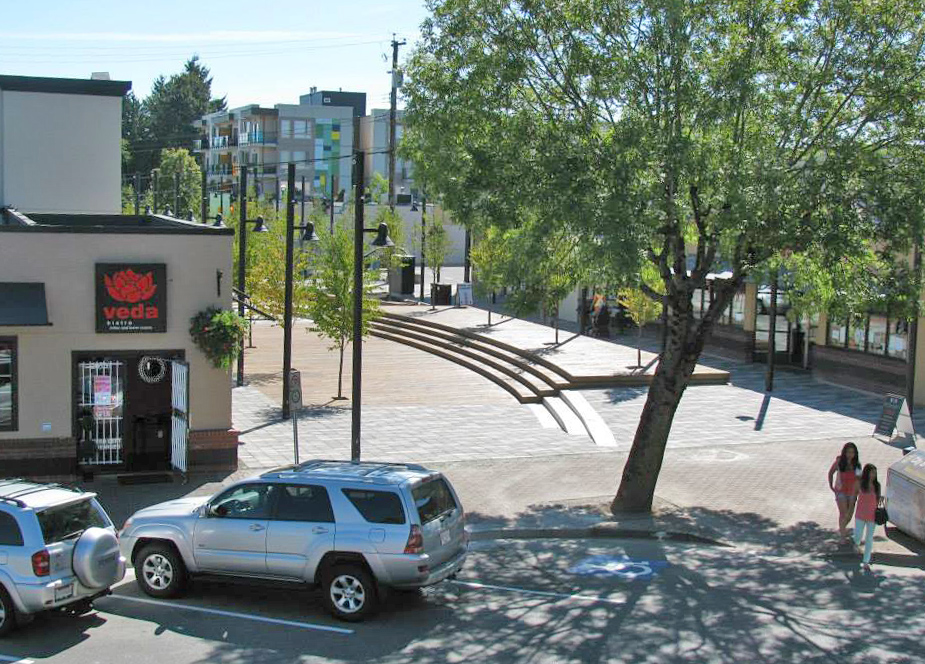 Brand new McBurney Plaza (McBurney Lane renewal) in City of Langley, BC